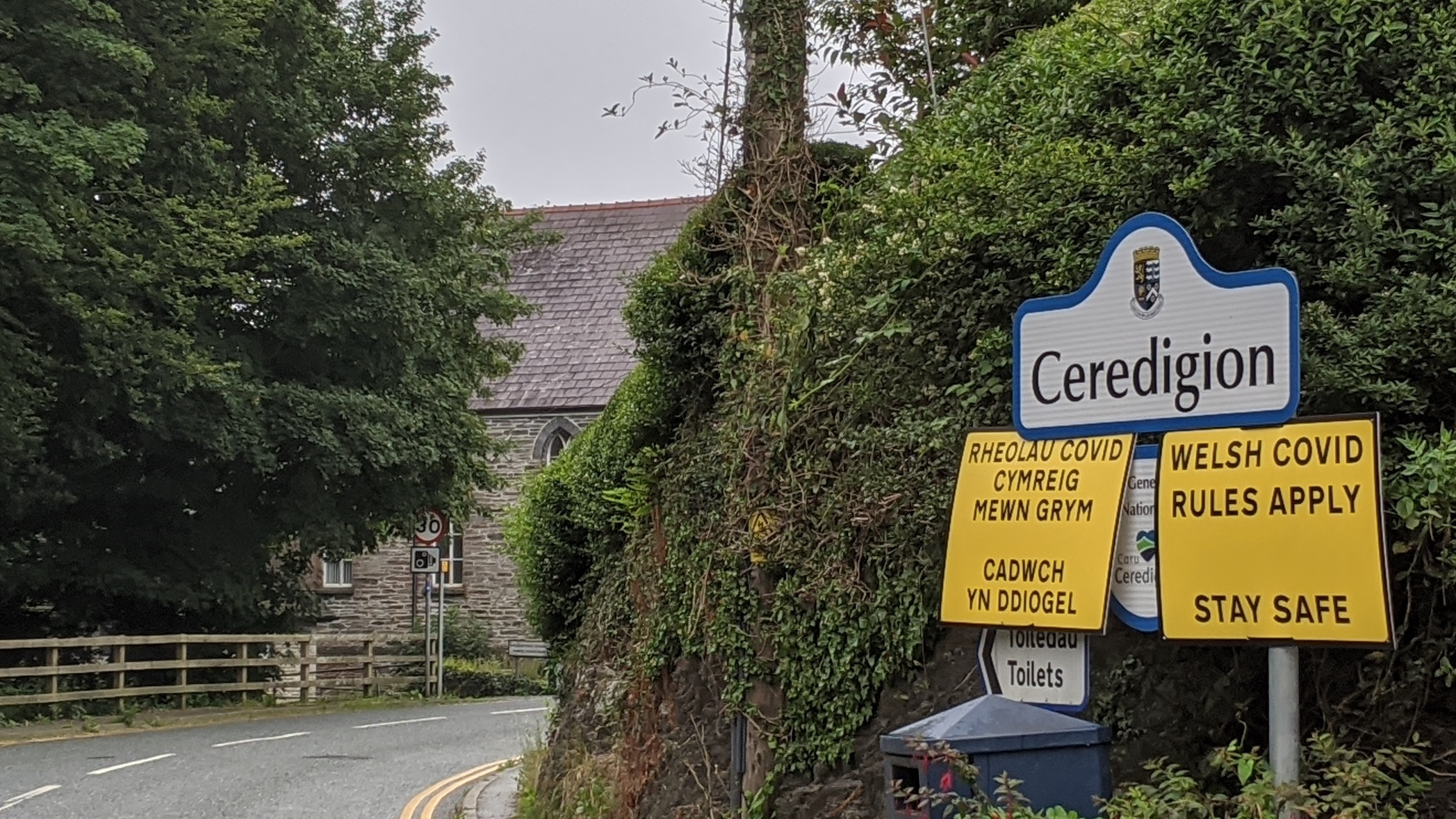 With evidence of English people coming to Wales to visit their holiday homes and / or local area during the COVID-19 pandemic, as well as the confusion of the English people of devolution and the difference in regulations, Local and Welsh Government put signs up over Wales specifically in beautiful locations and the border. The signs, such as this one on the Ceredigion sign at Cenarth on the Ceredigion-Carmarthenshire border, warned people that Welsh COVID regulations were in force when English regulations were different.